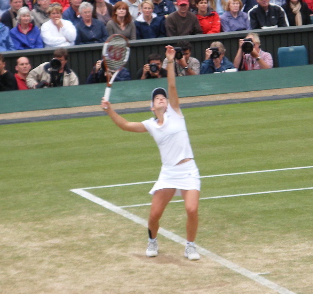 Justine Henin at Wimbledon, playing Serena Williams on Centre Court (Henin won)